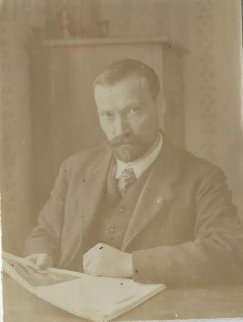 Ivan Grafenauer (1880-1964)